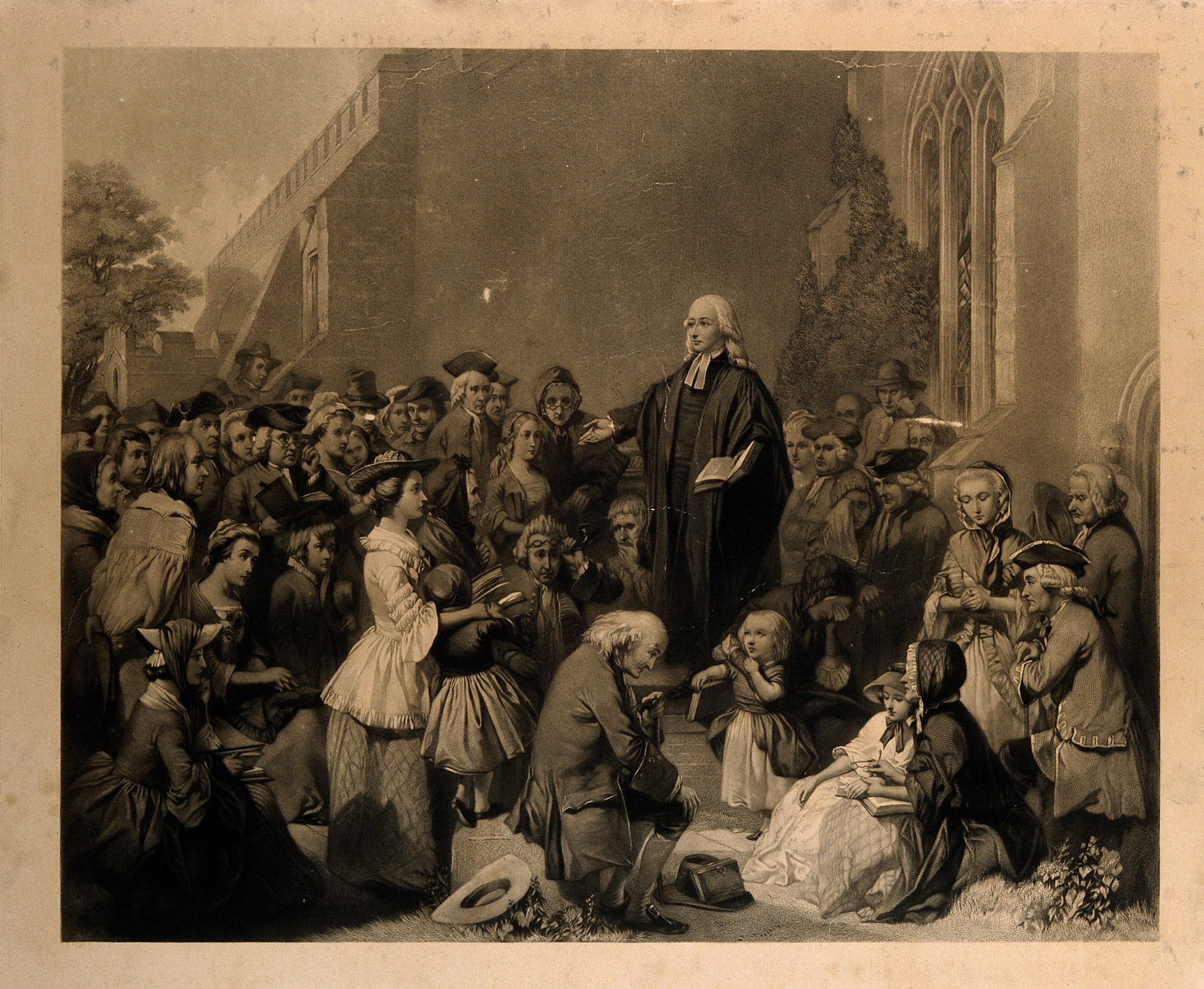 John Wesley preaching outside a church. Engraving. Iconographic Collections Keywords: John Wesley